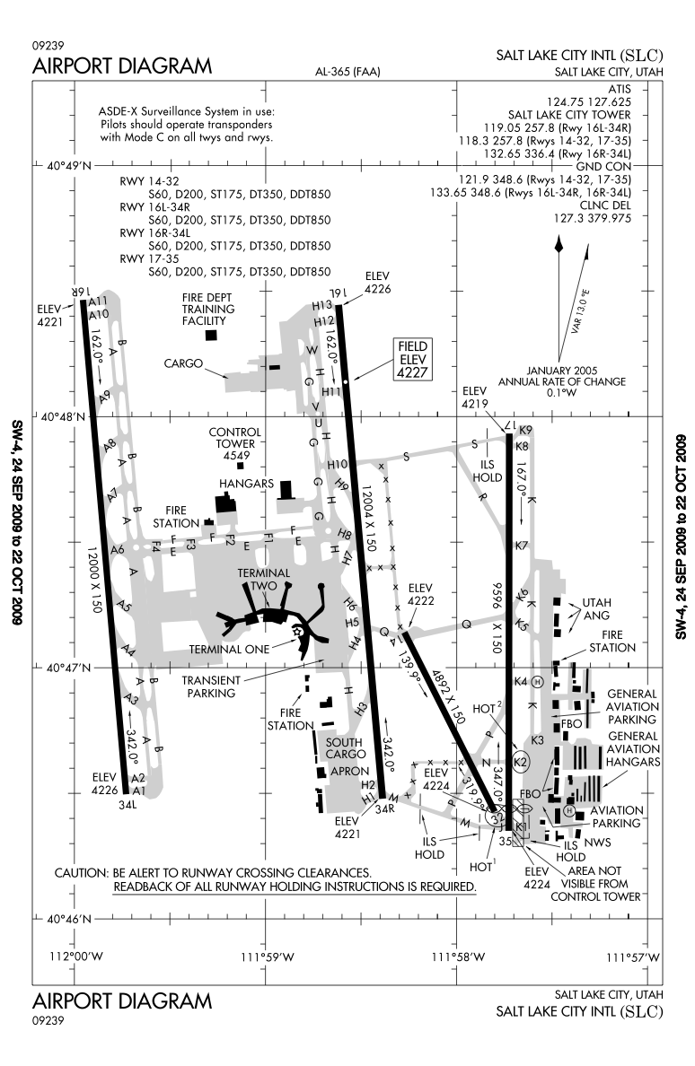 FAA airport diagram of Salt Lake City Int'l Airport(KSLC)